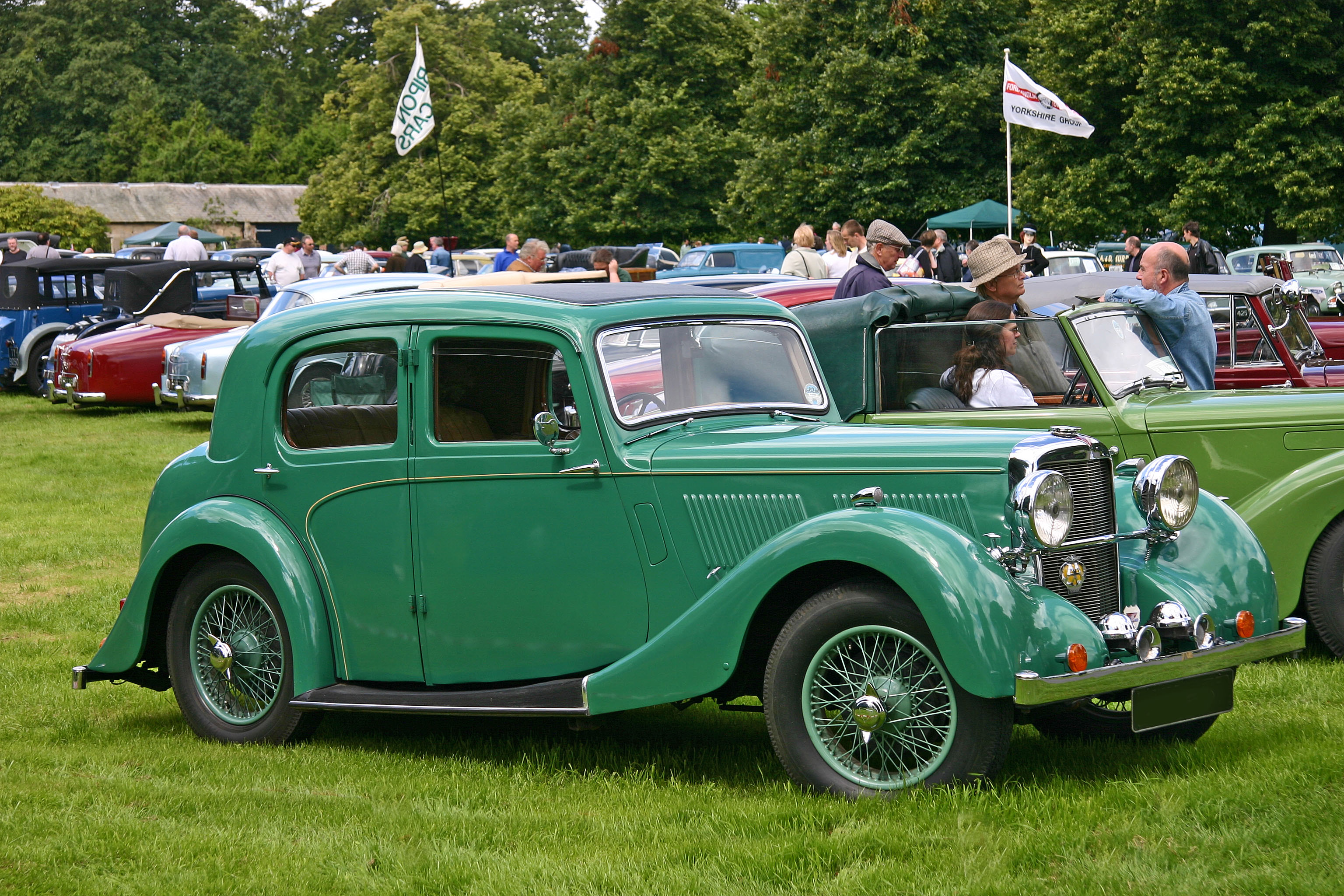 Alvis 12/70 1939. The 12/70 was introduced in 1937 as a four cylinder sibling of the Silver Crest. It had a new 1842cc engine by Alvis, but lots of other components were bought in.